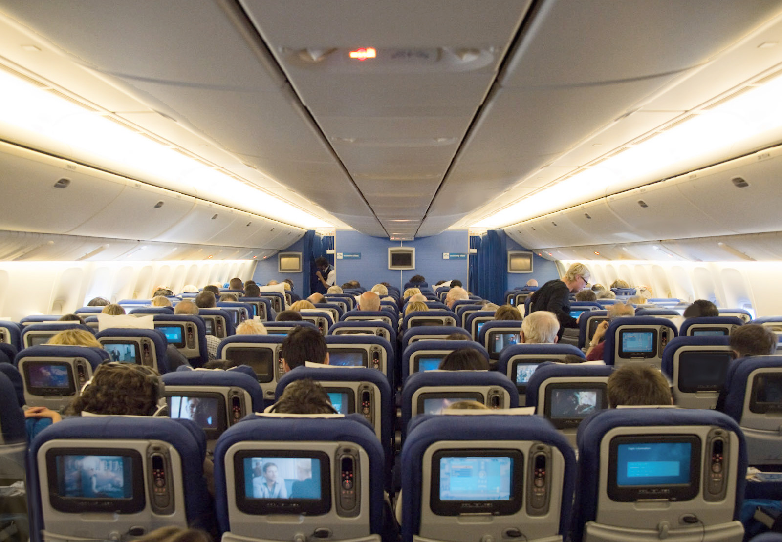 The KLM Boeing 777-300ER seat assignment (3-4-3) is OK as long as everybody stays seated.